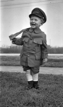 A small boy wearing an outfit with a hat that has the word "MARINE" on the front. The boy has a small gun in his right hand and is resting the gun on his right shoulder.